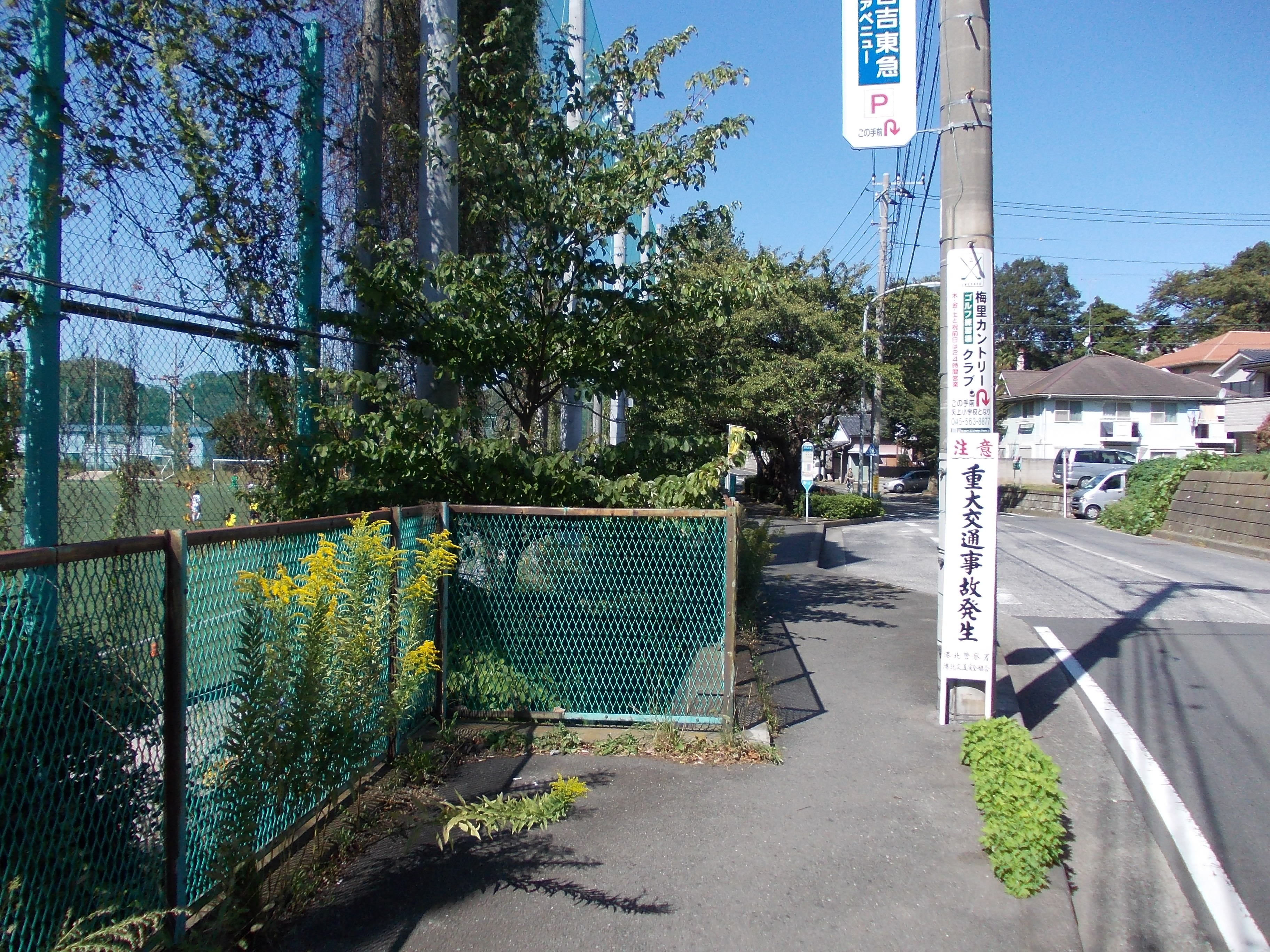 It was taken in Keio University Hiyoshi campus in Yokohama